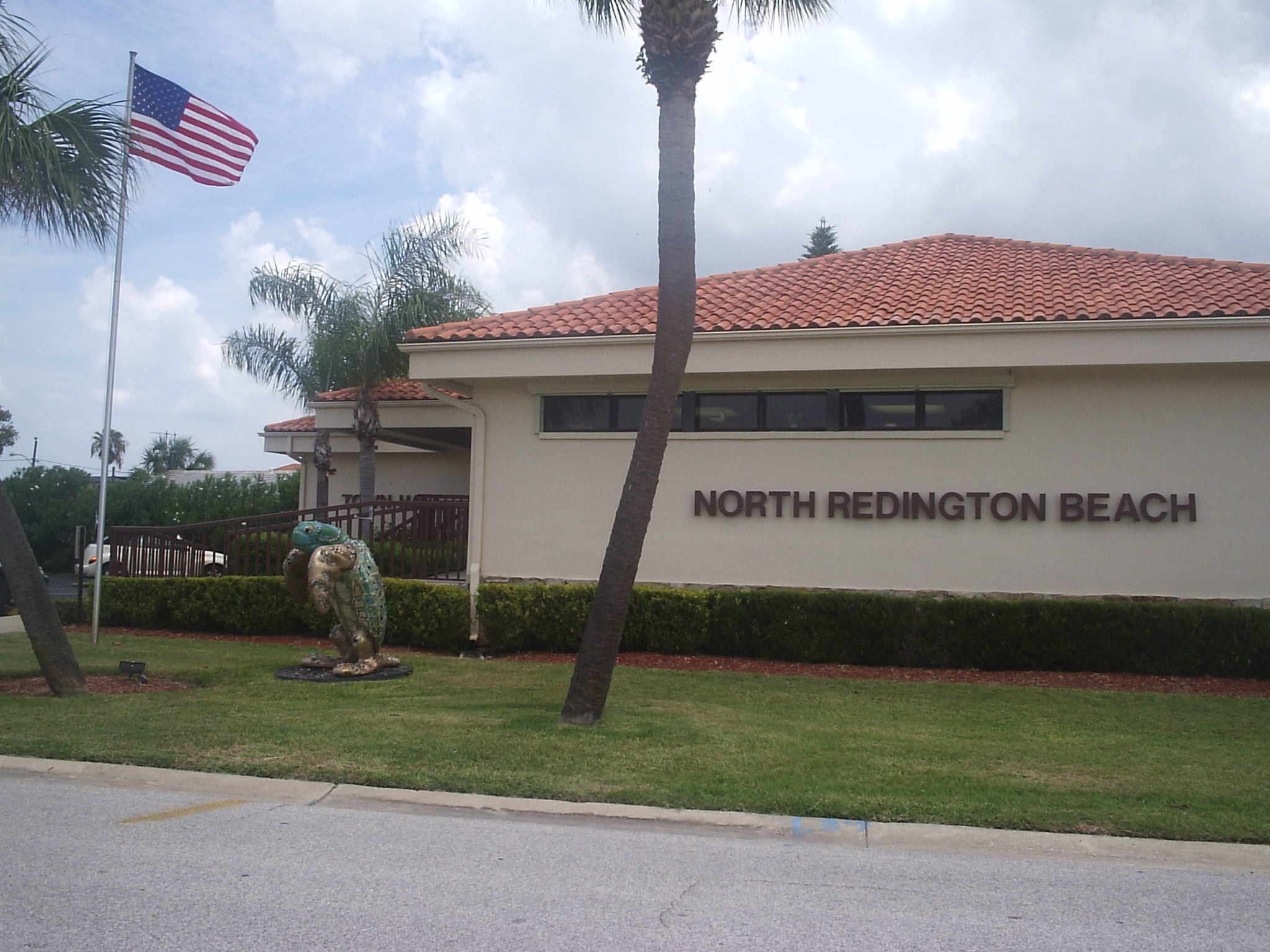 Taken by me, User:Mikereichold